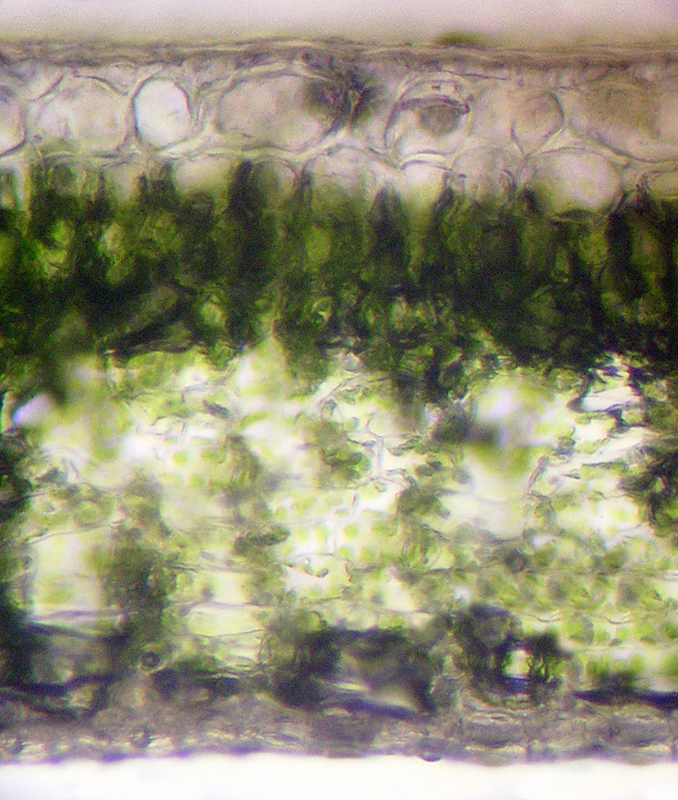 Cross section of a bifacial (dorsiventral) leaf, through a micrscope.